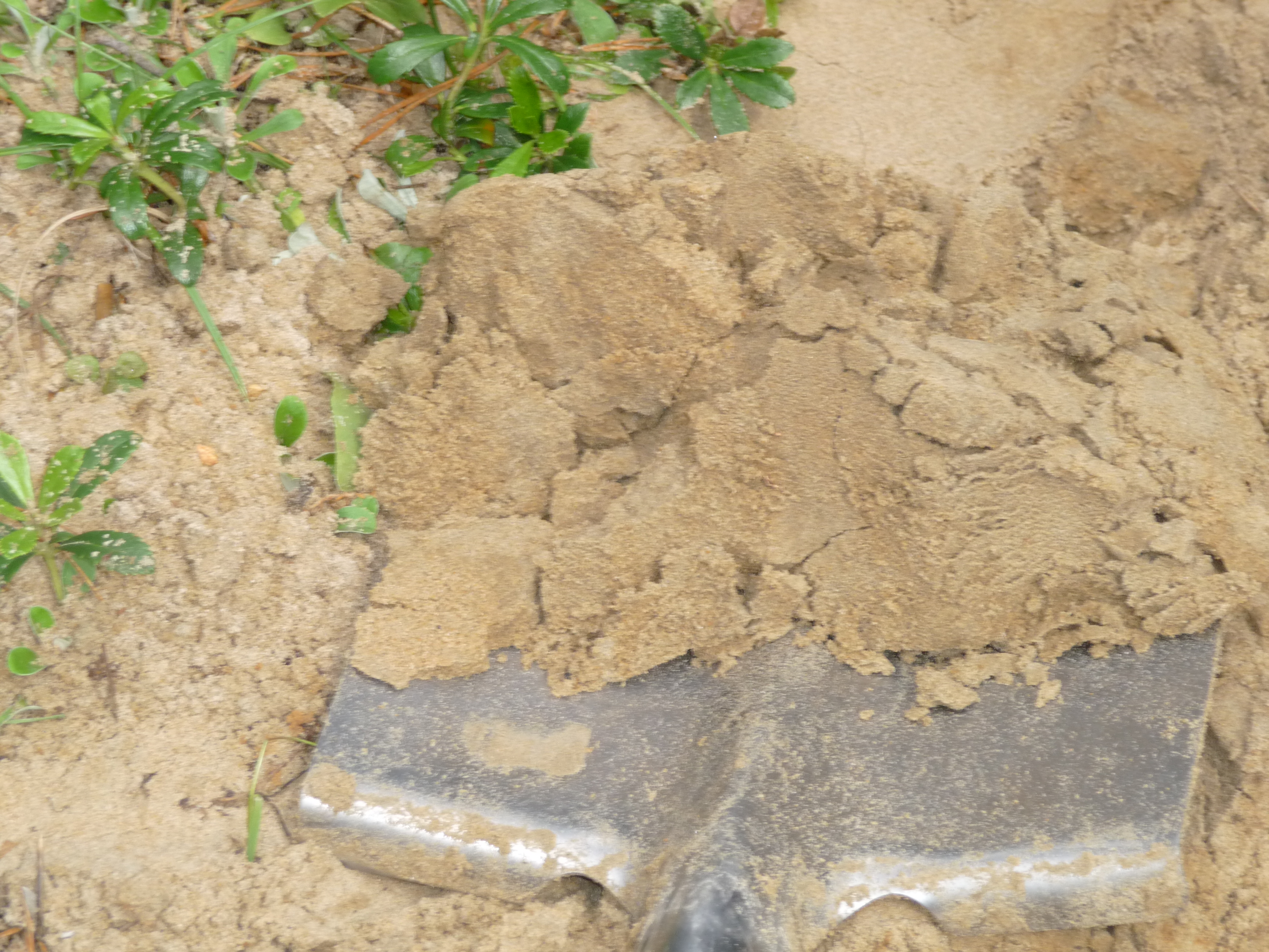 Sandy loam